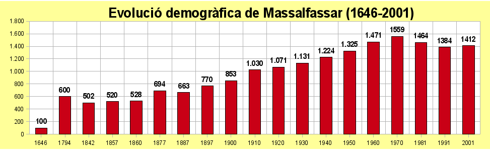 Massalfassar's population (1646-2001).